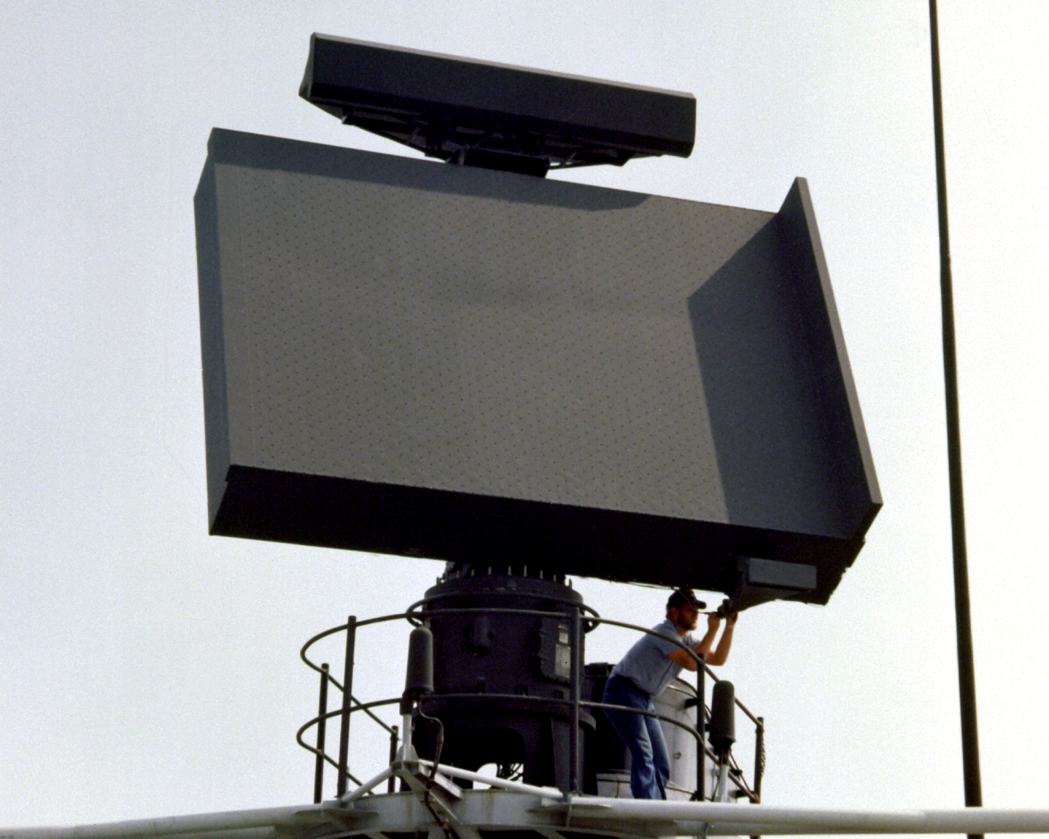 A U.S. Navy radar technician performs maintenance on the AN/SPS-52C three dimensional shipboard defense radar antenna aboard the guided missile destroyer USS Tattnall (DDG-19).